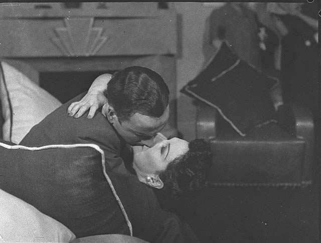 Format: Photograph Notes: While parents sleep is the name of a play. This photograph is a still from the 1943 stage production . Find more detailed information about this photographic collection: .au/item/itemDetailPaged.aspx?itemID=29549 Search for more great images in the State Library's collections: .au/search/SimpleSearch.aspx From the collection of the State Library of New South Wales